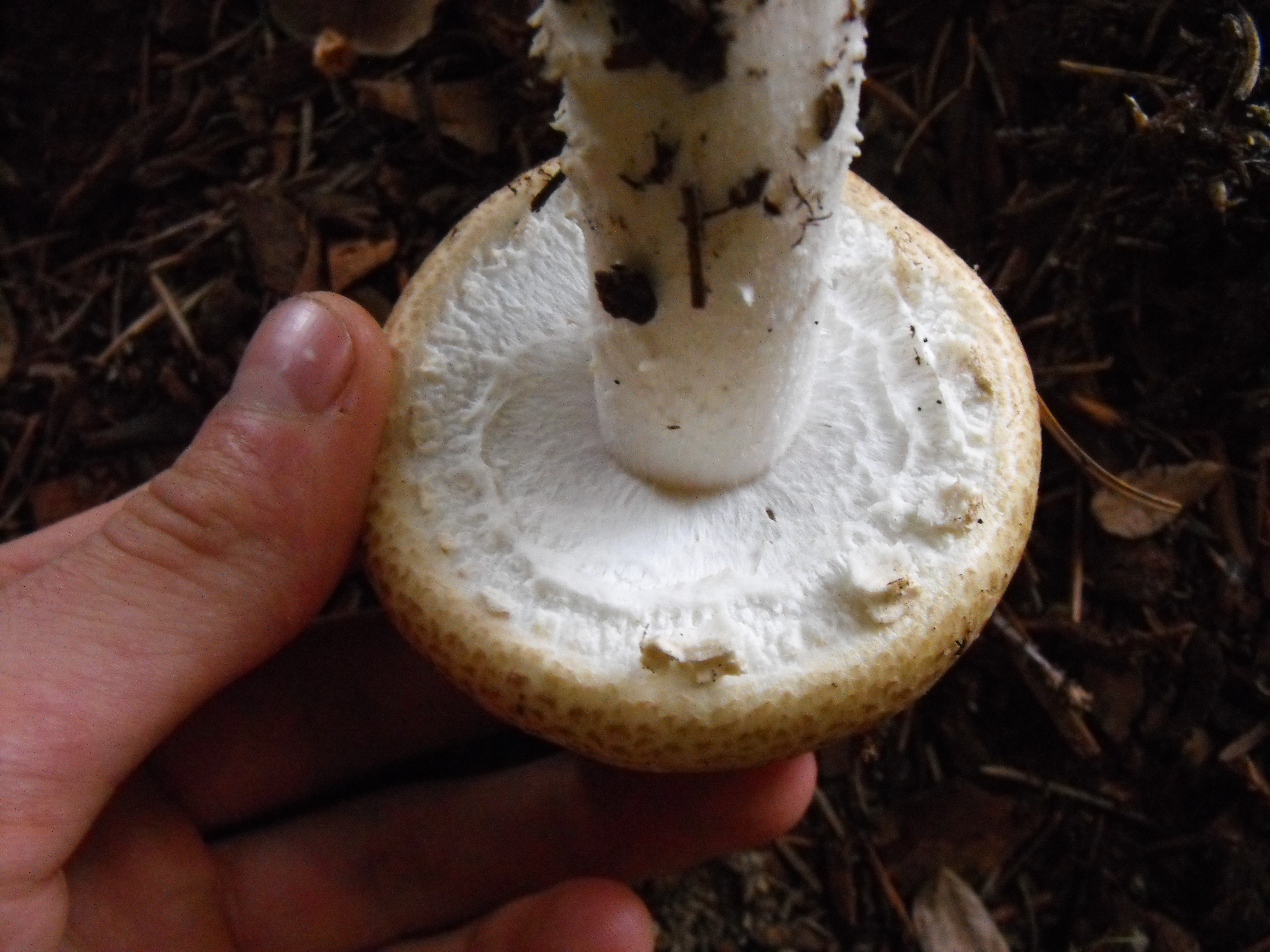 Agaricus augustus Fr. For more information about this, see the observation page at Mushroom Observer.